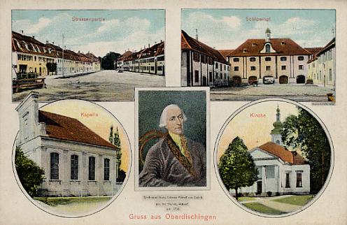 Oberdischingen 1920, the man in the middle is Franz Ludwig Schenk von Castell (1736–1821)